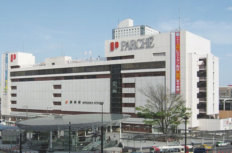 Shizuoka Station North side